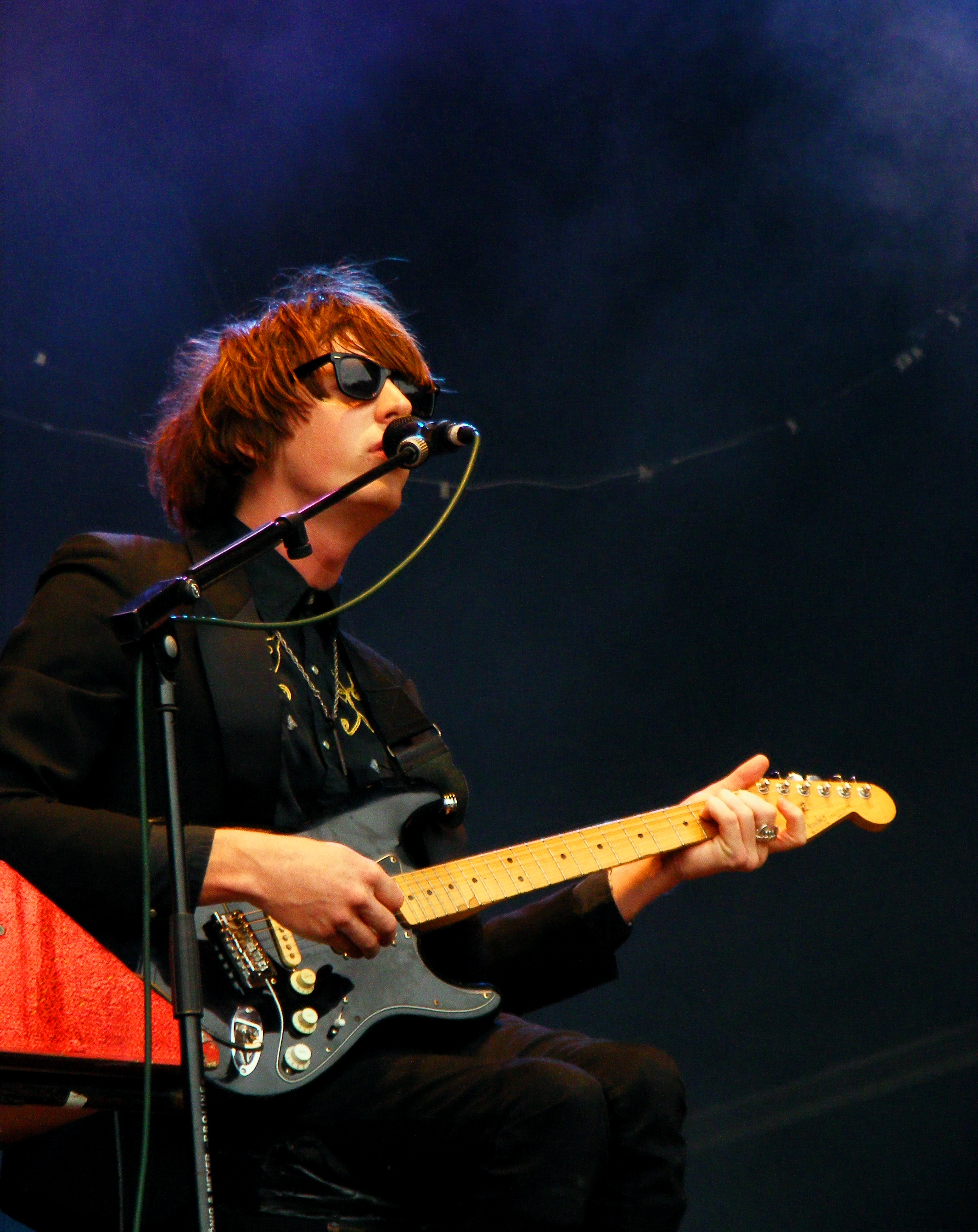 Blaine Harrison of the Mystery Jets performing at Bingley Music LiveBingley Music Live on Saturday the 3rd of September 2011.